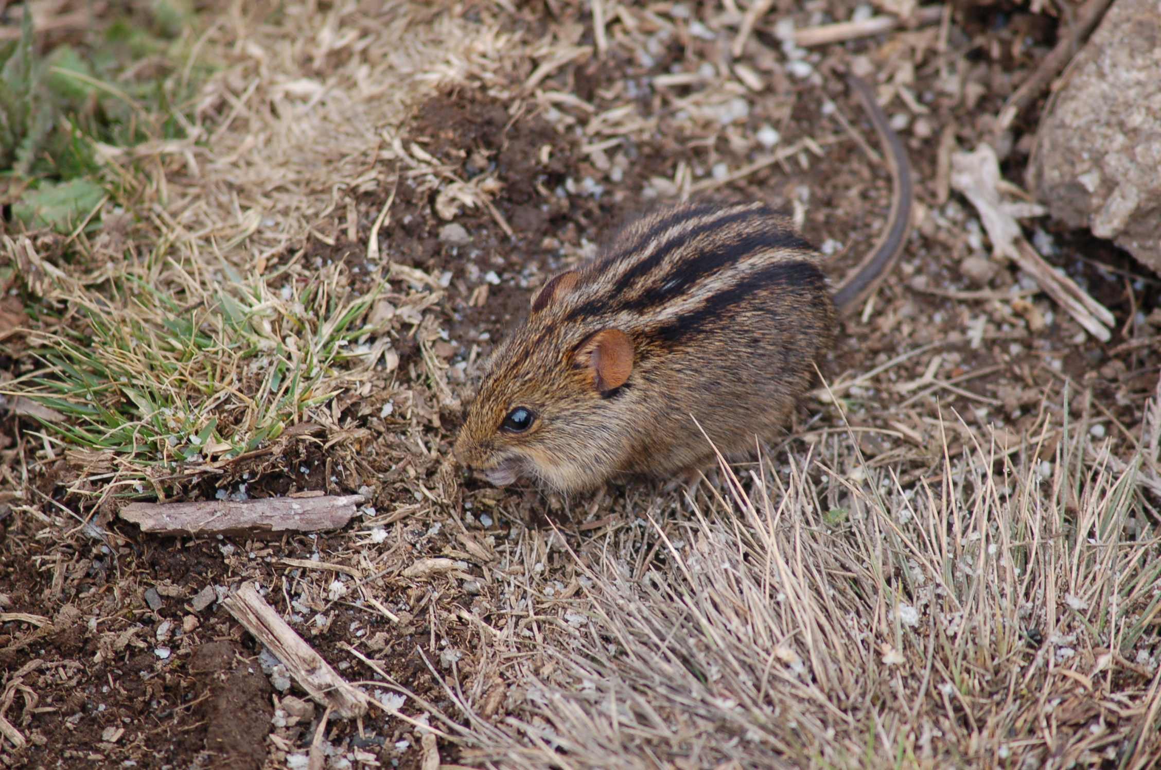 Four-striped Grass Mouse photographed on February 14, 2009, in Lemosho route while climbing Mount Kilimanjaro. Place: Lava Tower, Kilimanjaro, Tanzania.